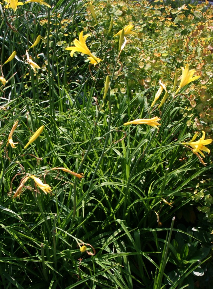 Hemerocallis lilioasphodelus: Habit.